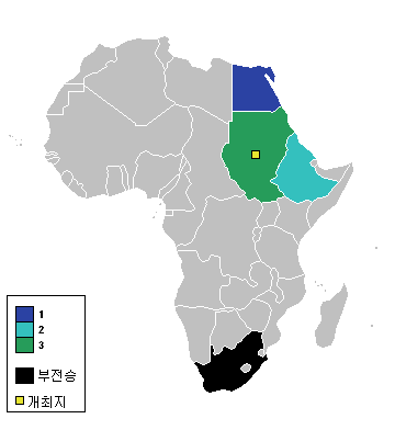 Countries positions in the African Cup of Nations